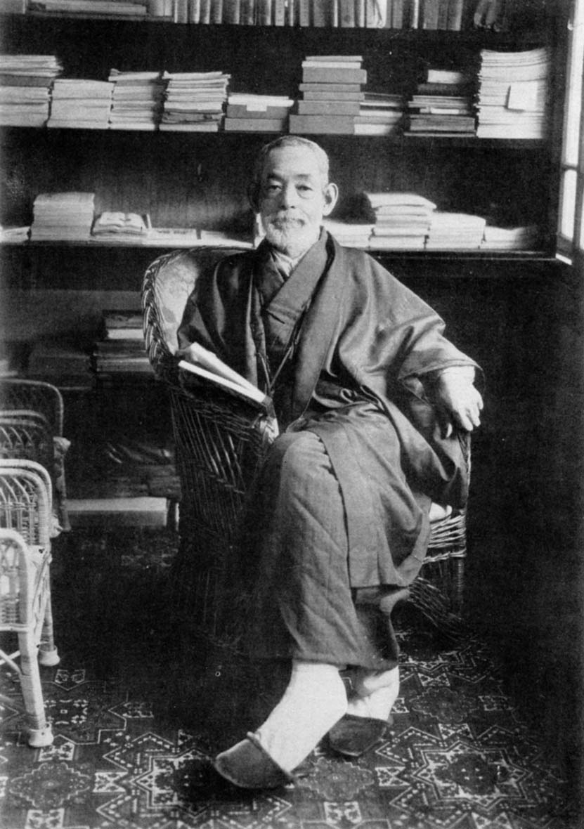 Tomii Masaakira (Spring 1934).